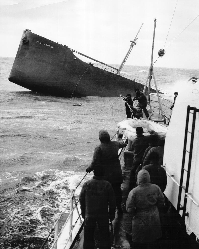 Crewmen of the U.S. Coast Guard YAKUTAT draw in a rubber liferaft with the last two survivors from the bow section of the broken tanker SS FORT MERCER. Twenty minutes later the broken hulk heaved into the air and turned keel upward to sink into the sea. Four of nine men stranded on the bow section were rescued by the YAKUTAT. The others disappeared in the sea - four while jumping during a rescue attempt under the canopy of evening darkness (February 18, 1952) when a line holding three liferafts parted, and one while transferring from the after end of the hulk to the forward section during the night when rescue attempts were abandoned until daylight."[1]